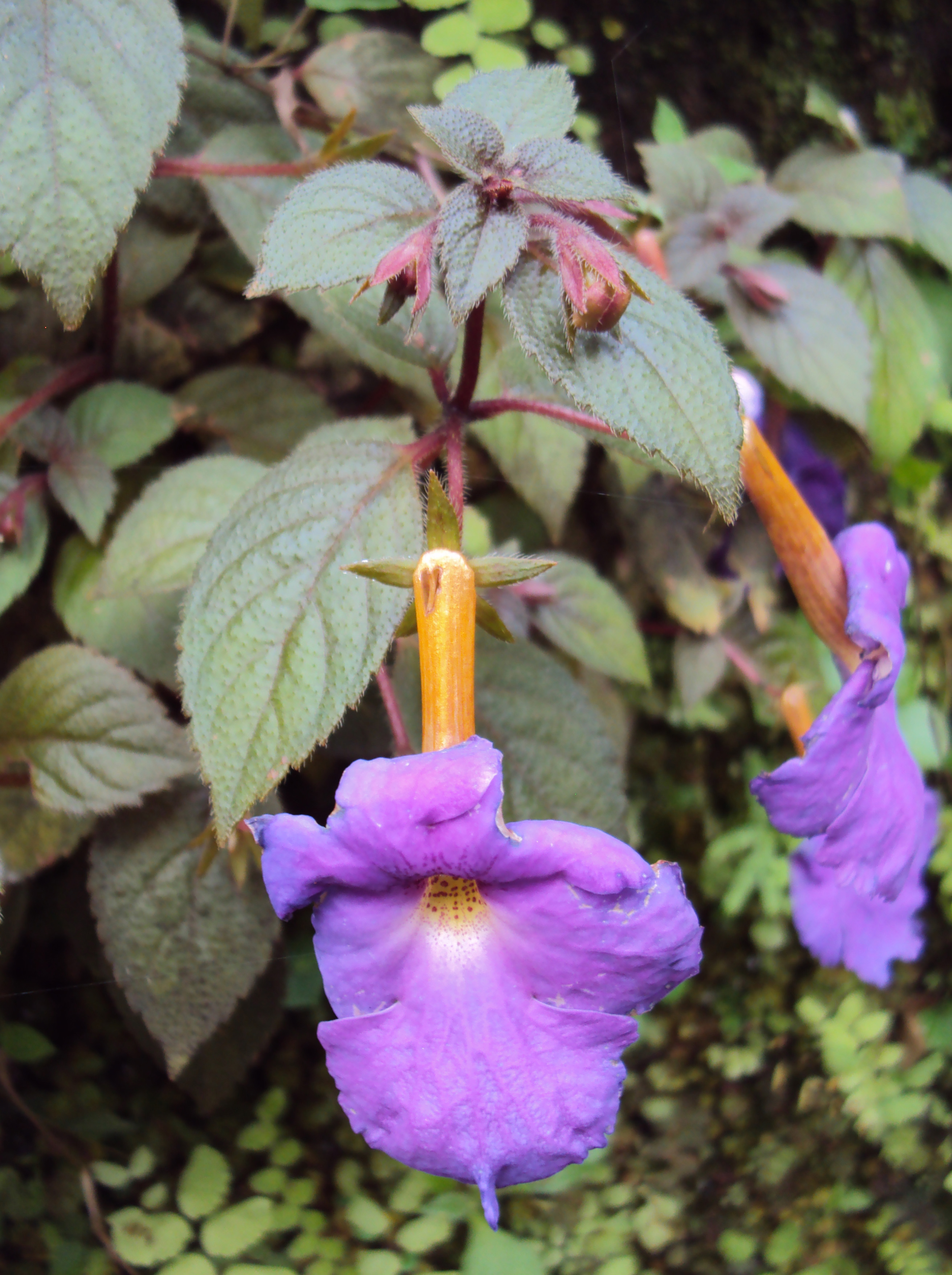 Achimenes longiflora